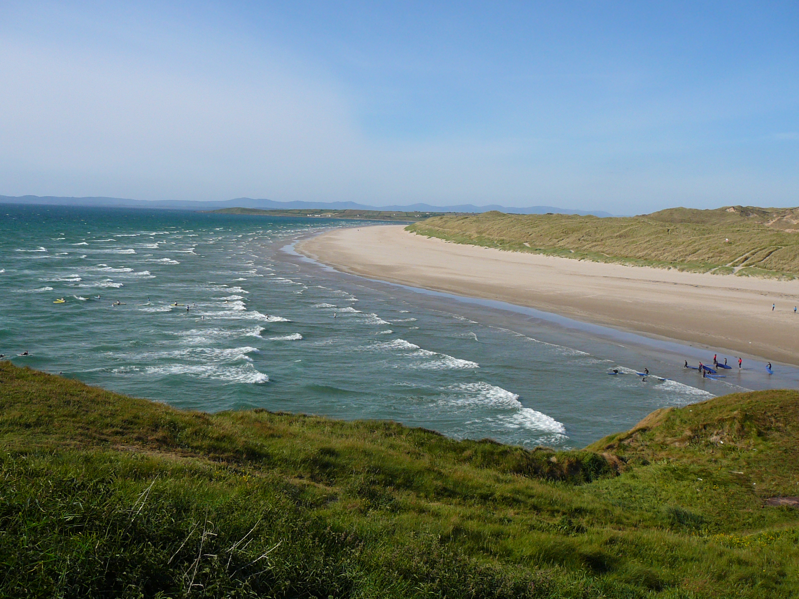 Image of Bundoran Strand Co. Donegal with surfers, on the Atlantic west coast of Ireland.